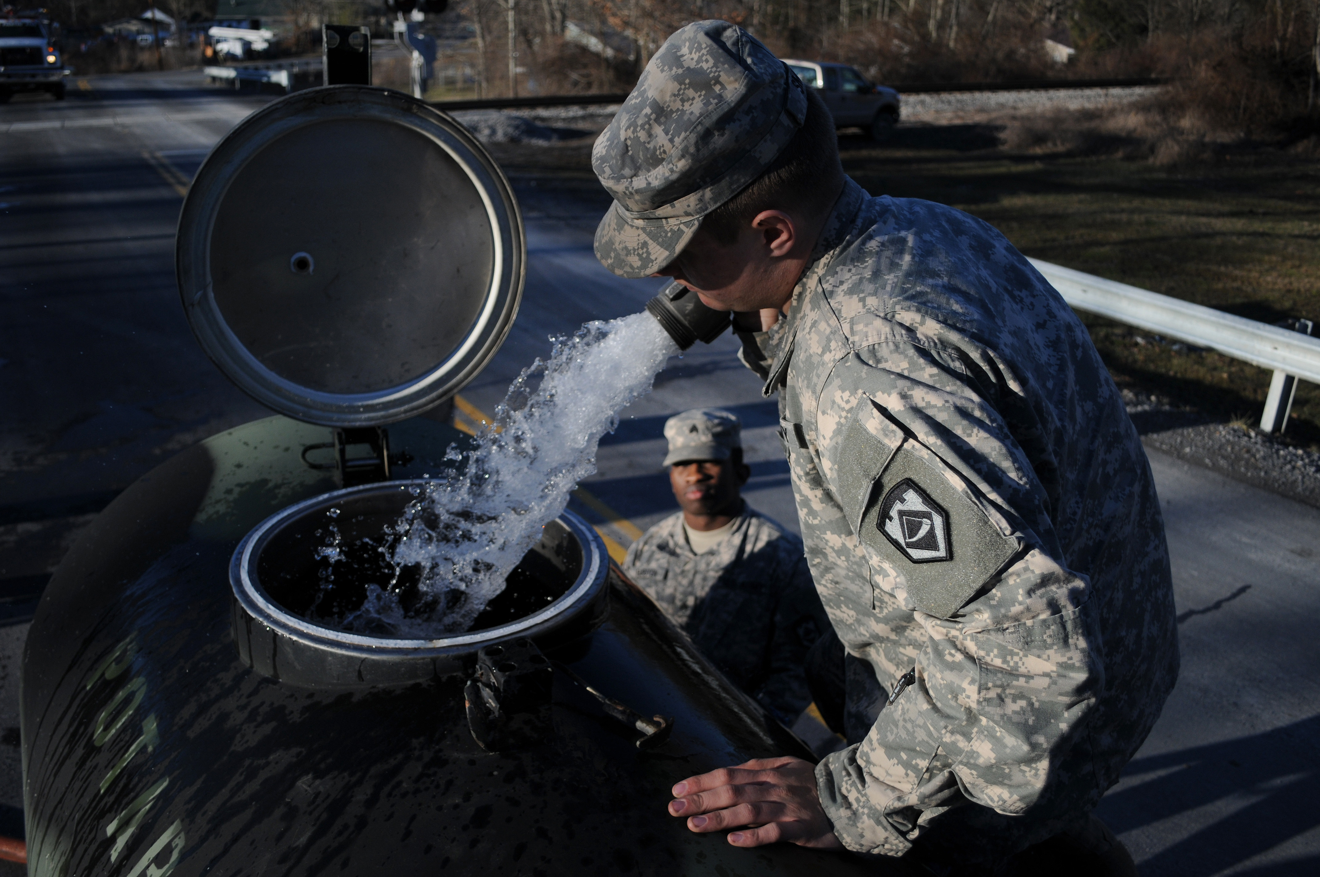 2014 Elk River chemical spill — U.S. Army Pvt. Thomas Smith, with the 1257th Transportation Company, West Virginia Army National Guard, fills a water buffalo at the The Summit - Bechtel Family National Scout Reserve in Mount Hope, W.Va., Jan. 12, 2014. National Guardsmen, along with residents of Mount Hope and the Summit Bechtel Reserve Boy Scouts of America (West Virginia), worked together in support of Operation Elk River. The West Virginia National Guard was activated to distribute drinking water and assist residents affected by a chemical spill on the Elk River near Charleston.